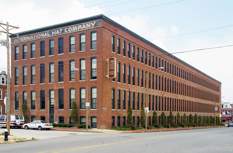 International Hat Company Warehouse in Soulard, St. Louis, since restored and converted into a Senior Living Facility. Listed in the National Register of Historical Places, since 1980.